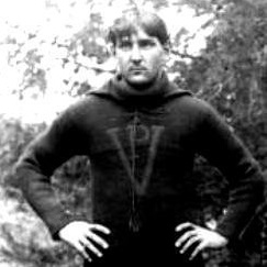 William Choice, Jr. in Virginia Polytechnic Institute football uniform